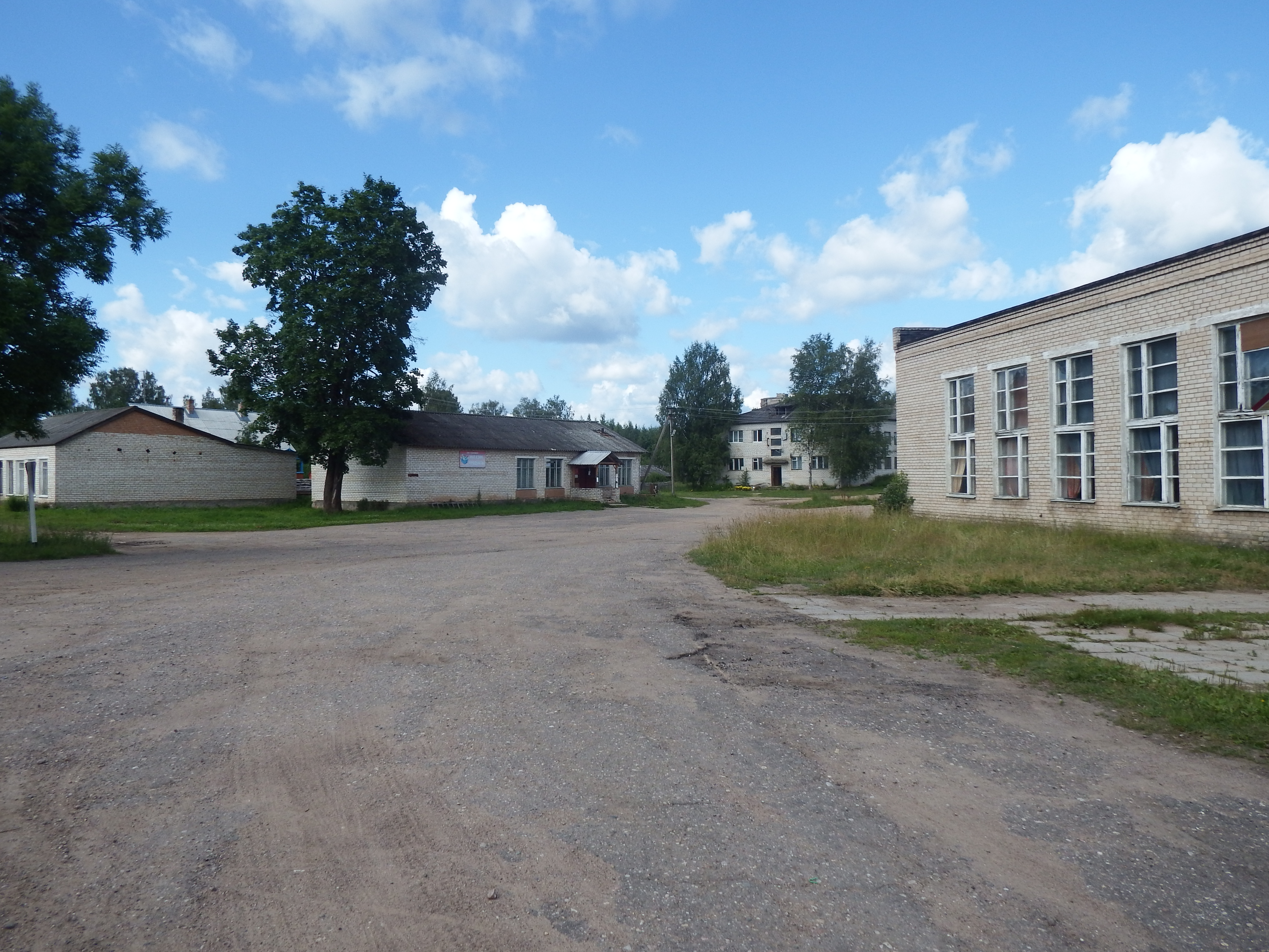 Novoselie, Pliusski district, Pskov region, general view